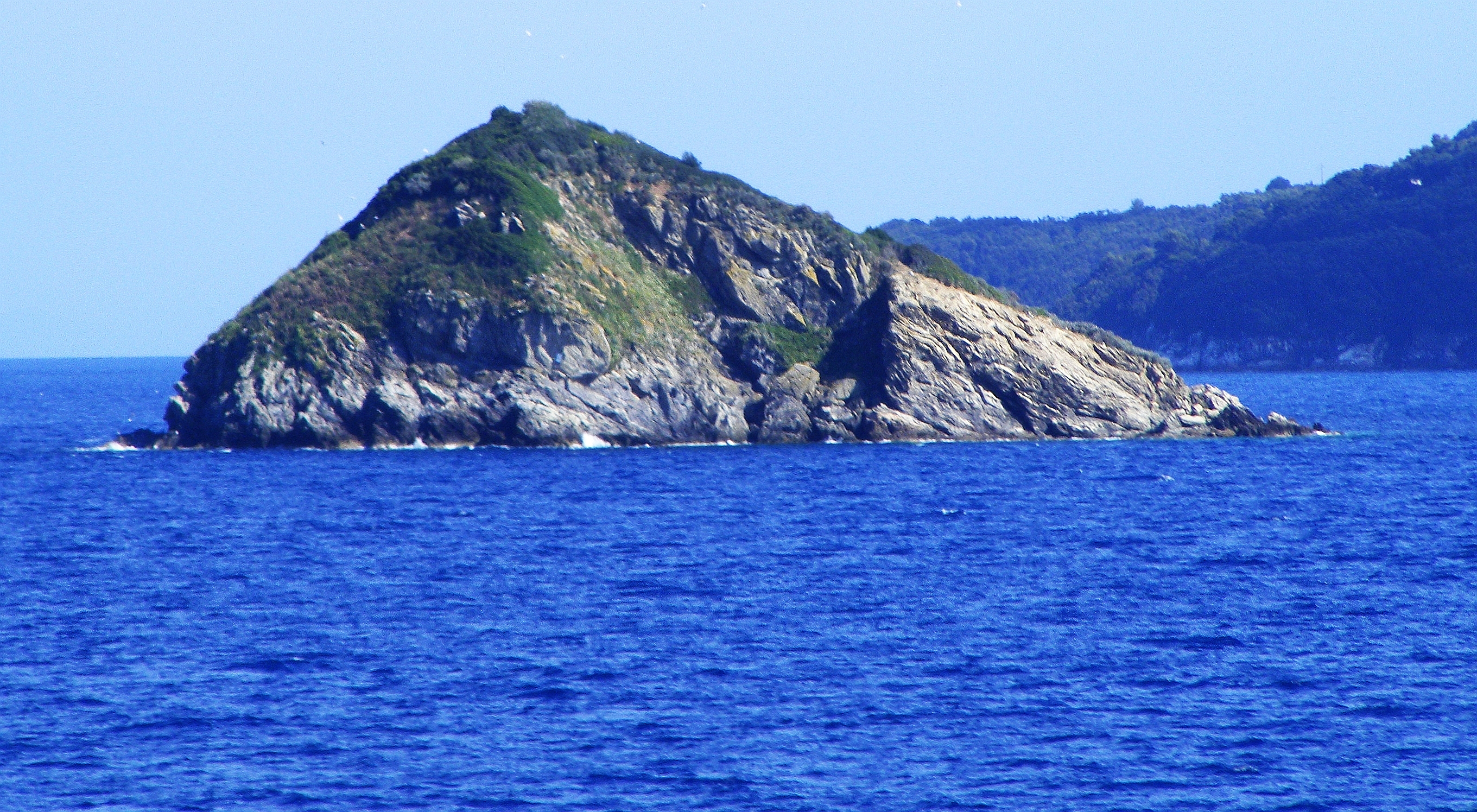 Isola dei Topi (litteraly Mices' island): north side (LI, Italy)